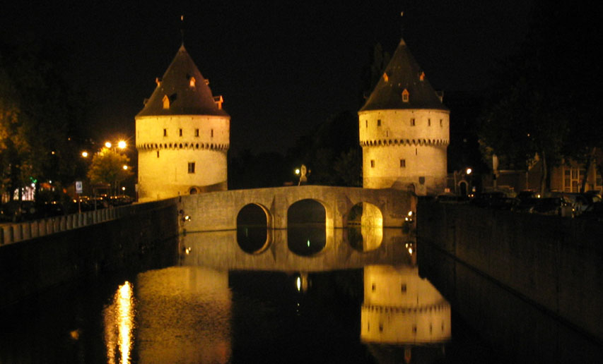 Broeltorens at Kortrijk